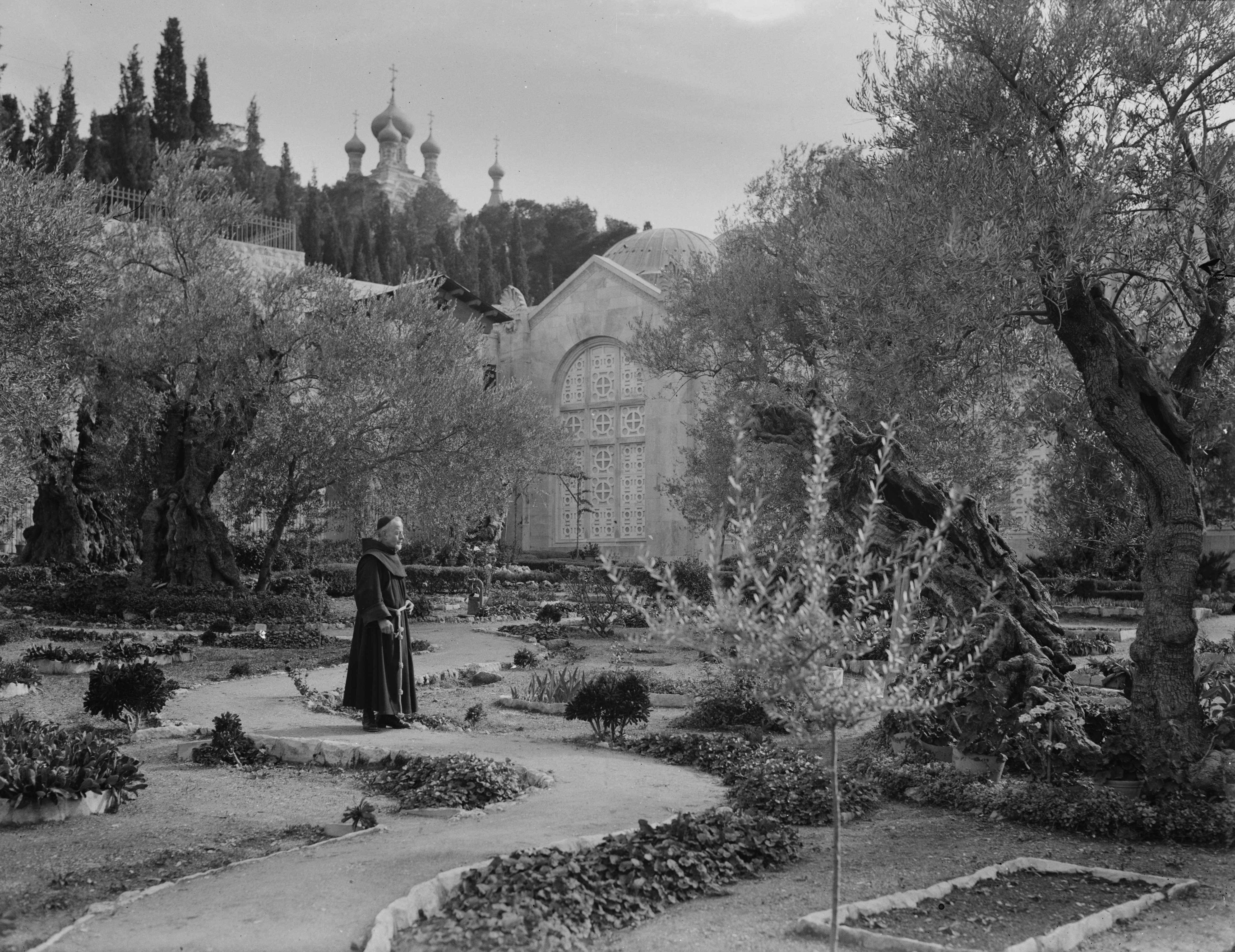 monk in the garden of Gethsemane, Jerusalem (El-Kouds). Description of the image at the Library of Congress: "Gethsemane, in the garden" Notes [of the Library of Congress]: "Title and date from: photographer's logbook: Matson Registers, v. 2, [1940-1946]. Caption continues from catalog: see Art 4. Gift; Episcopal Home; 1978."